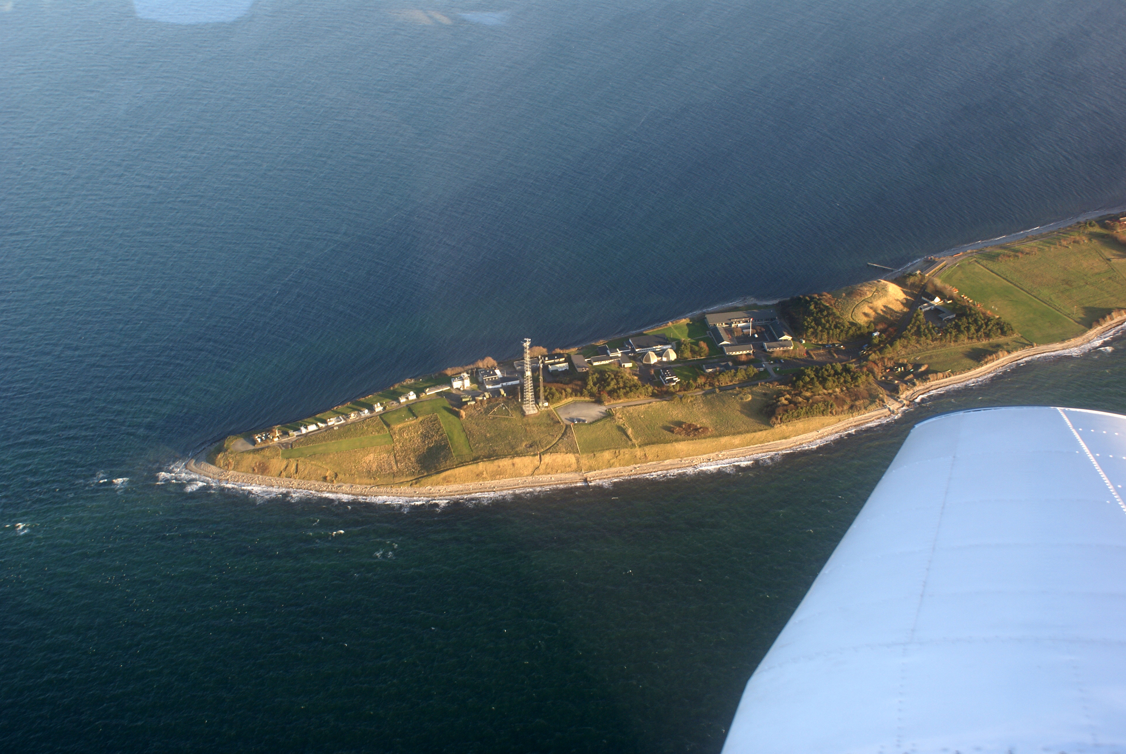 Gniben, Sjællands Odde, Denmark